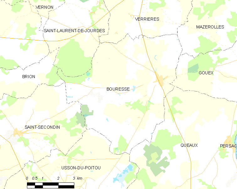 Map of French municipality Bouresse